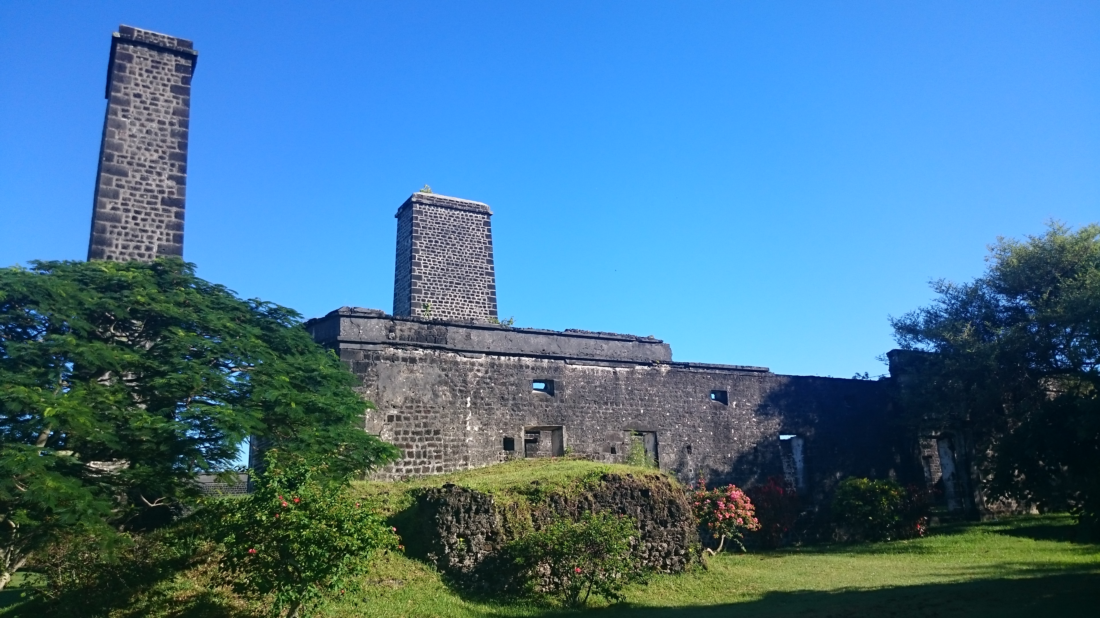 Sugar factory Belle Mare